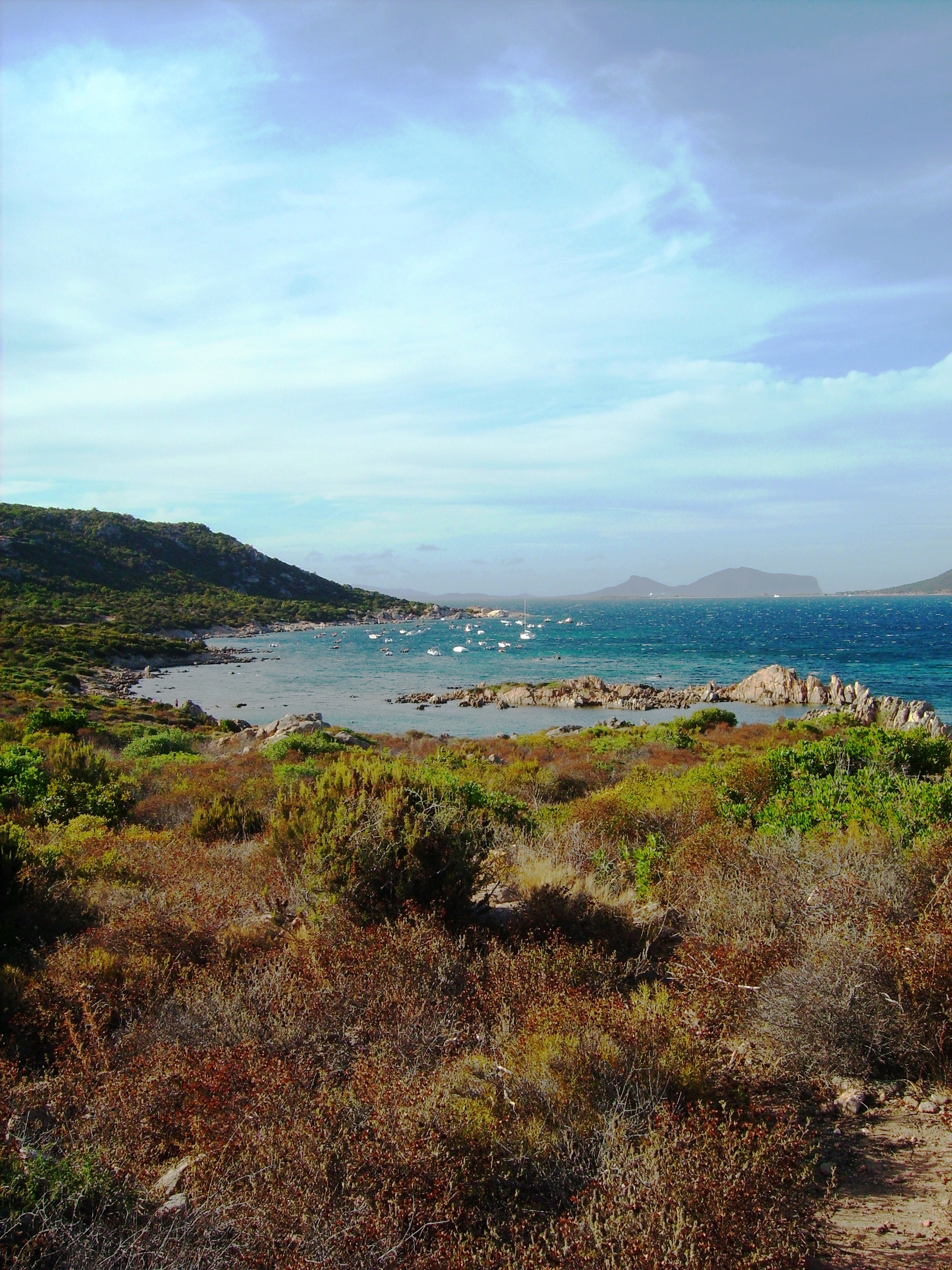 Sardegna - San Teodoro (OT)- Cala Ginepro Own work --Shardan 16:52, 14 September 2007 (UTC)